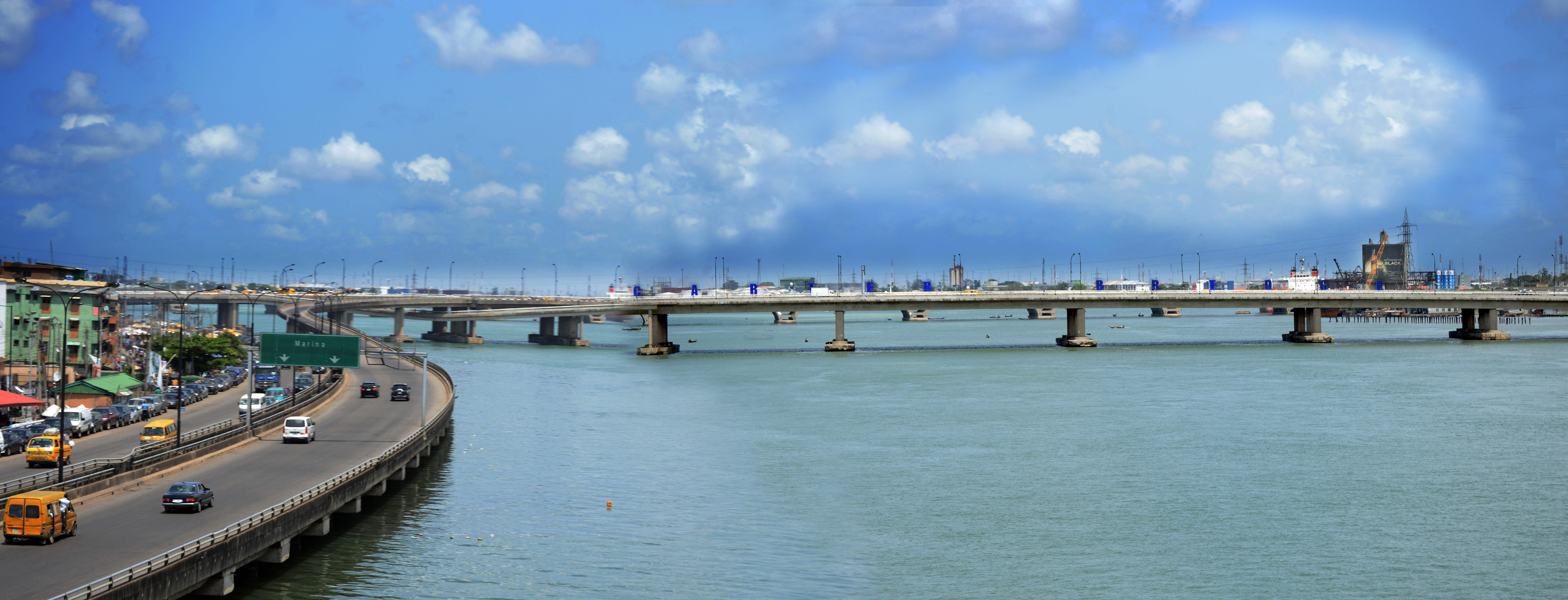 Eko cater bridge in Lagos State-Nigeria